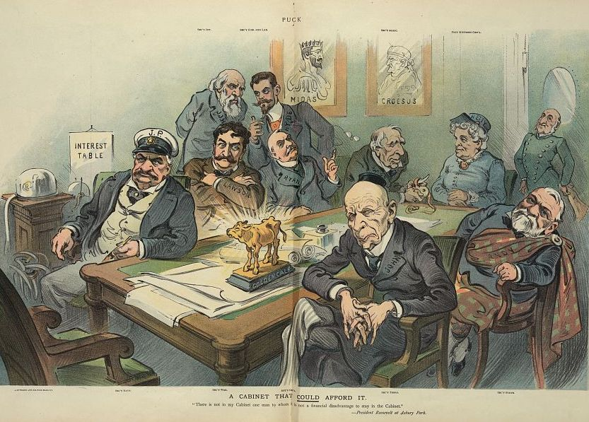 Illustration shows eight men and one woman sitting and standing around a table, each is identified with a Cabinet position: J.P. Morgan as "Sec'y Navy", Thomas W. Lawson as "Sec'y War", Thomas F. Ryan as "Att'y Gen'l", James J. Hill as "Sec'y Int.", James H. Hyde as "Sec'y Com. and Lab.", Russell Sage as "Sec'y Agric", Henrietta "Hetty" Green as "Post Mistress Gen'l", Andrew Carnegie as "Sec'y State", and John D. Rockefeller as "Sec'y Treas"; sitting on the table is a statue labeled "Golden Calf" and hanging on the wall are portraits of "Midas" and "Croesus". On the far left is a ticker tape machine.